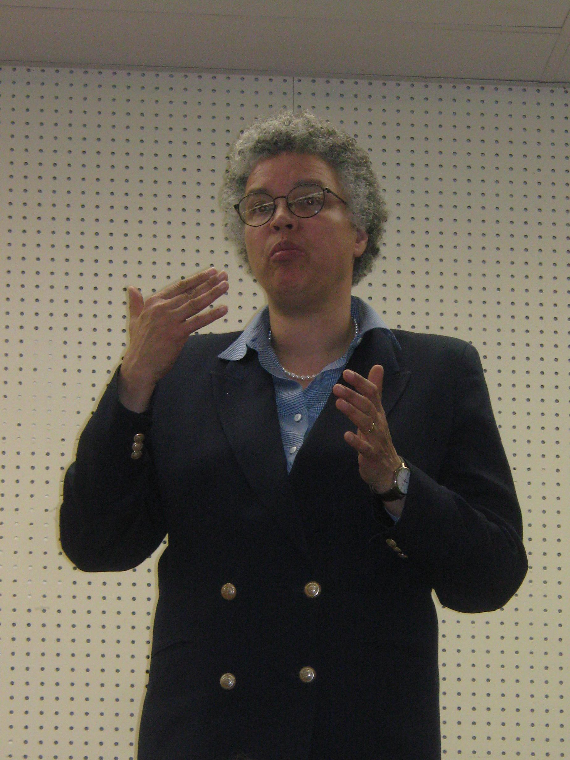 Toni Preckwinkle